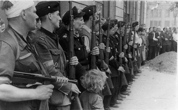 Warsaw Uprising: Unit "Kiliński" during funeral on Zgoda street in Warsaw